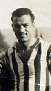 Minister for Mercantile Marine, MP, Mayor of Piraeus (1951-1955), Olympiacos co-founder, player (1925-1931) and president (1954-1967) Giorgos Andrianopoulos